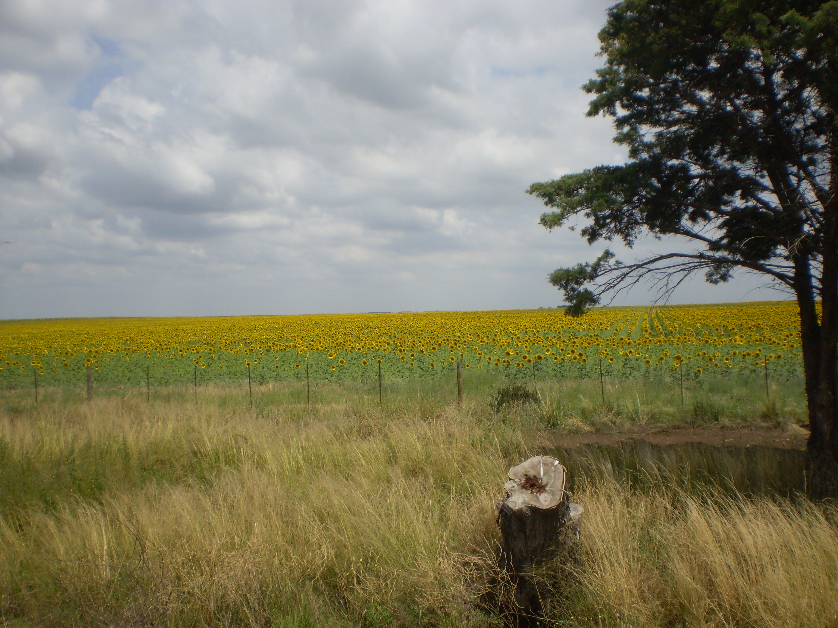 Sunflower field at La Pampa, Argentina